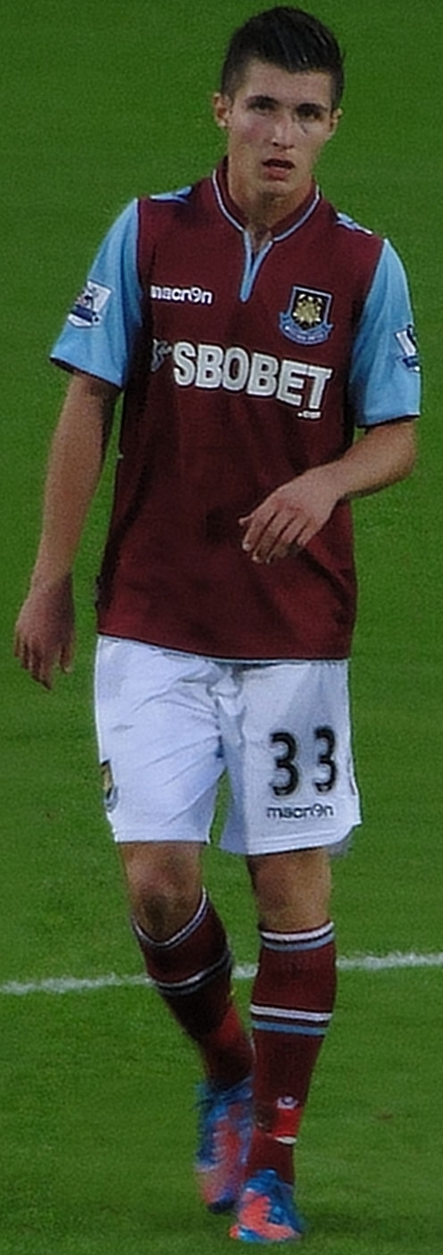 West Ham United player Dan Potts playing in the Football League Cup against Crewe Alexandra on 28 August 2012 at The Boleyn Ground.